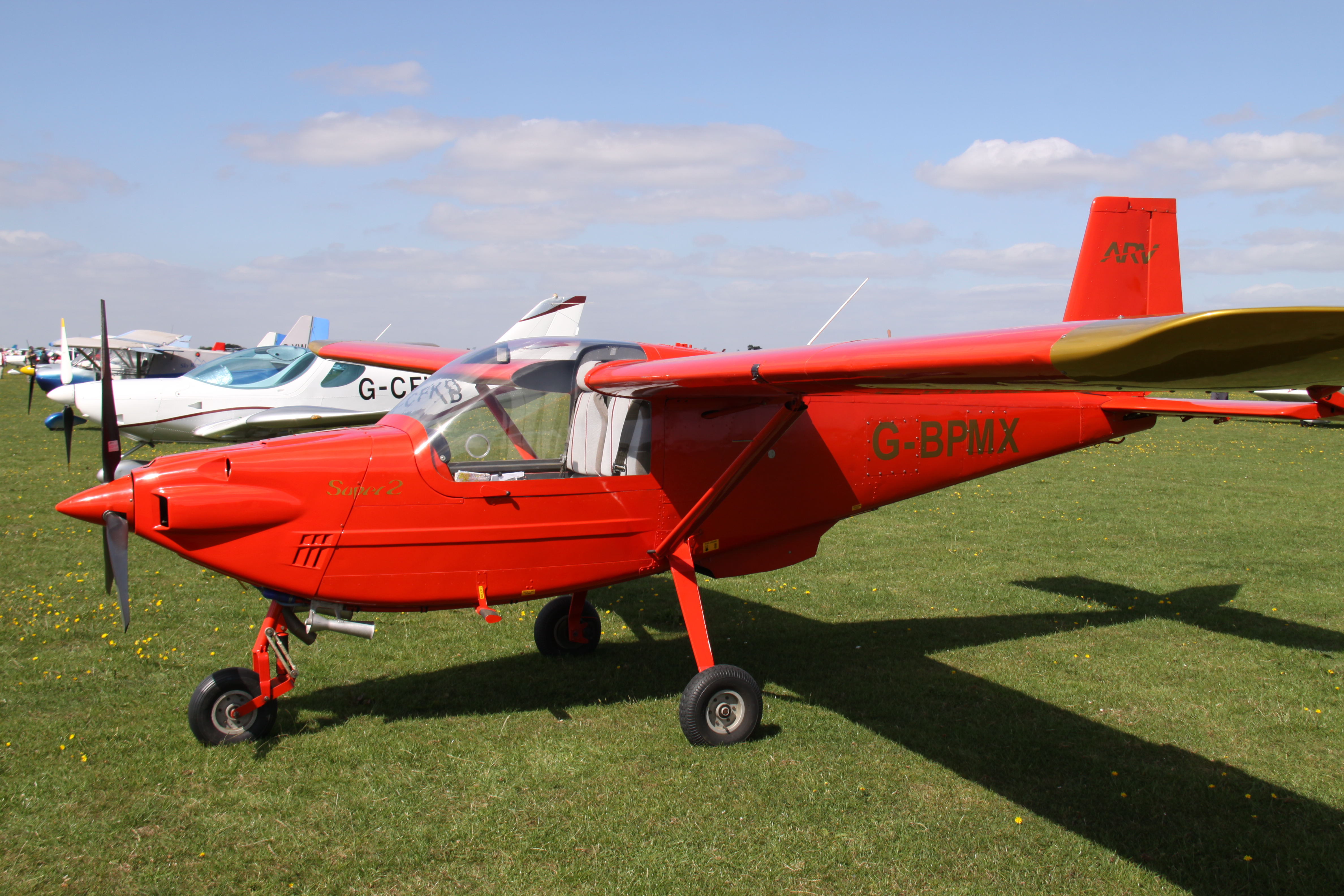 At Sywell Airfield